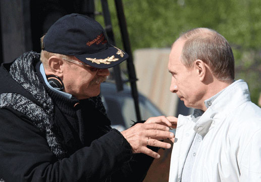 Vladimir Putin visited the survey ground of the Nikita Mikhalkov's film Burnt by the Sun-2 in Shushary village